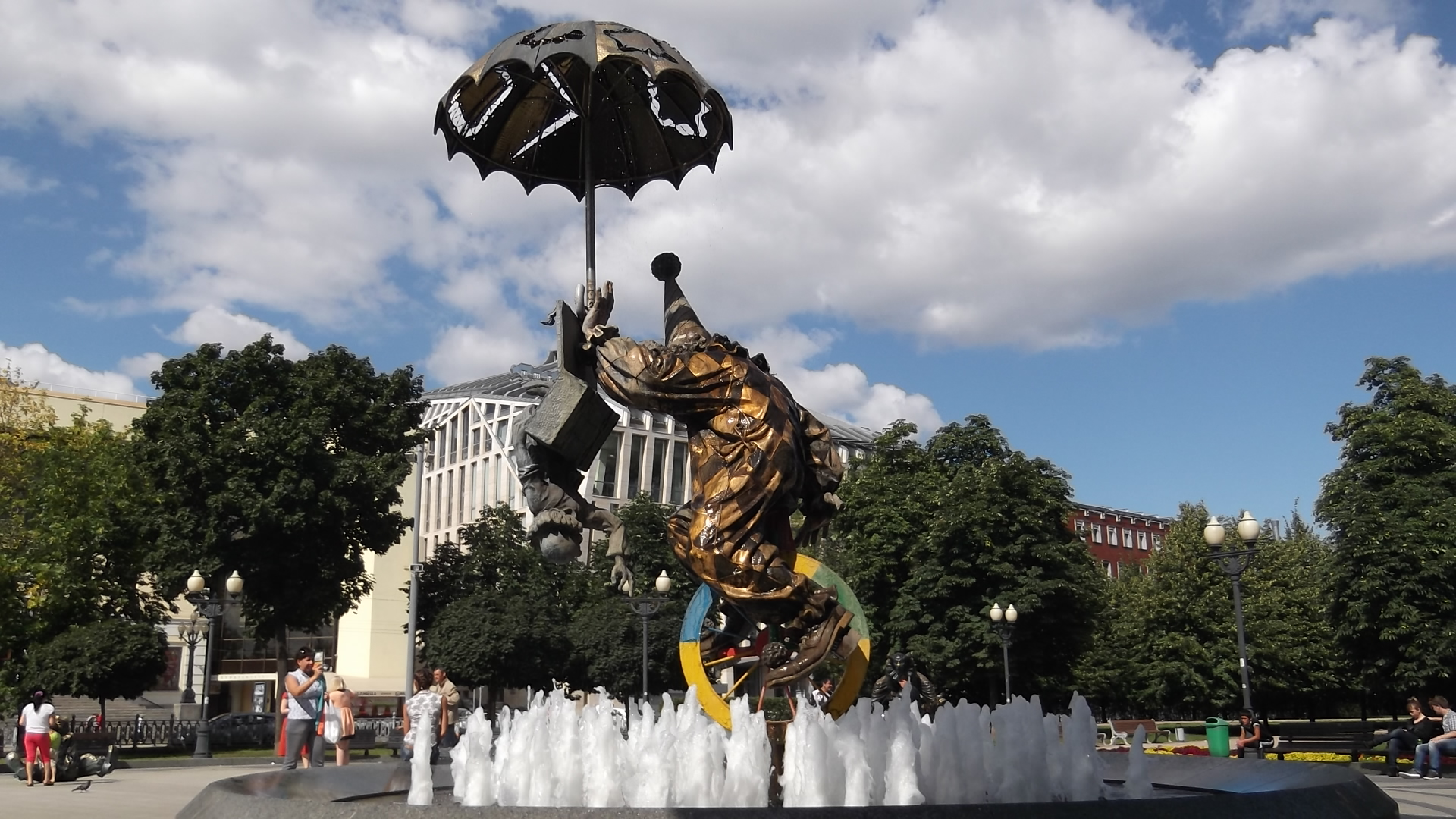 Meshchansky District, Moscow, Russia